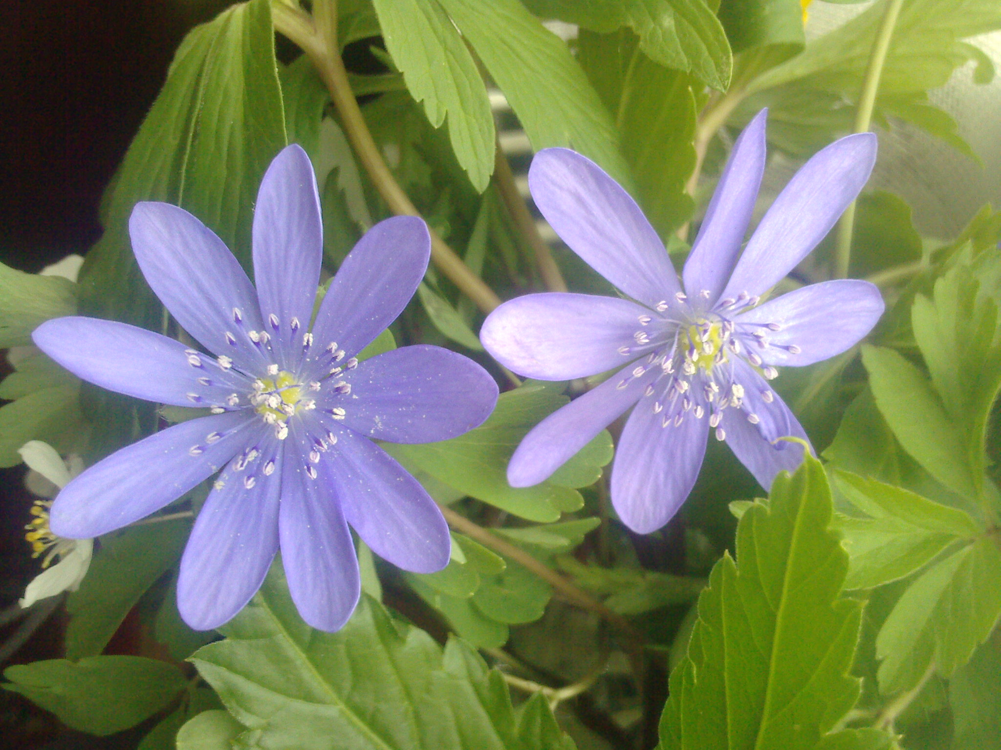 Flowers of Hepatica transsilvanica among Anemone nemorosa - Massif Piatra Mare